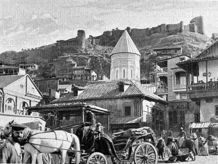 Tiflis